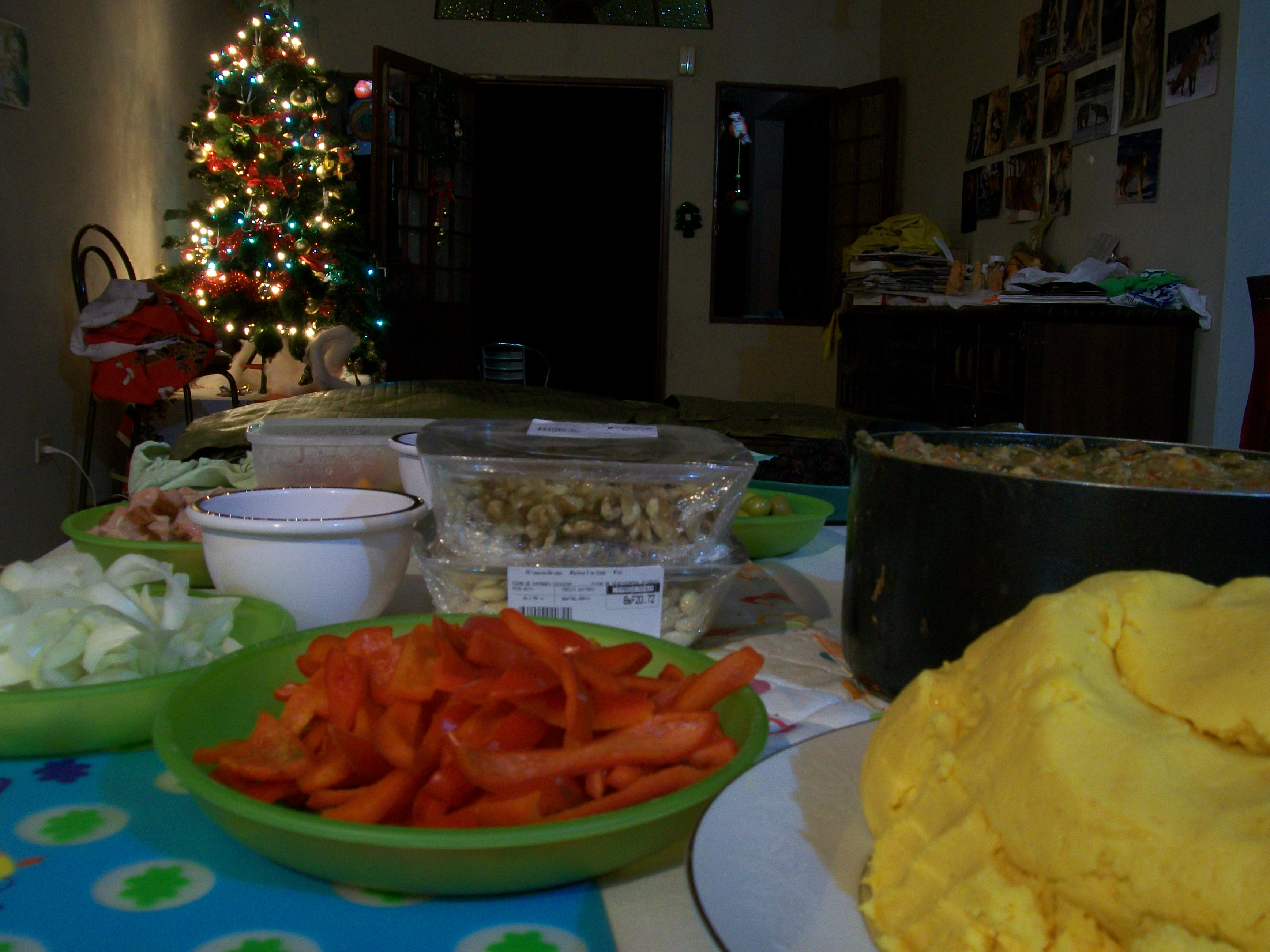 Ingredients set out for making hallacas, Maracay, Venezuela.